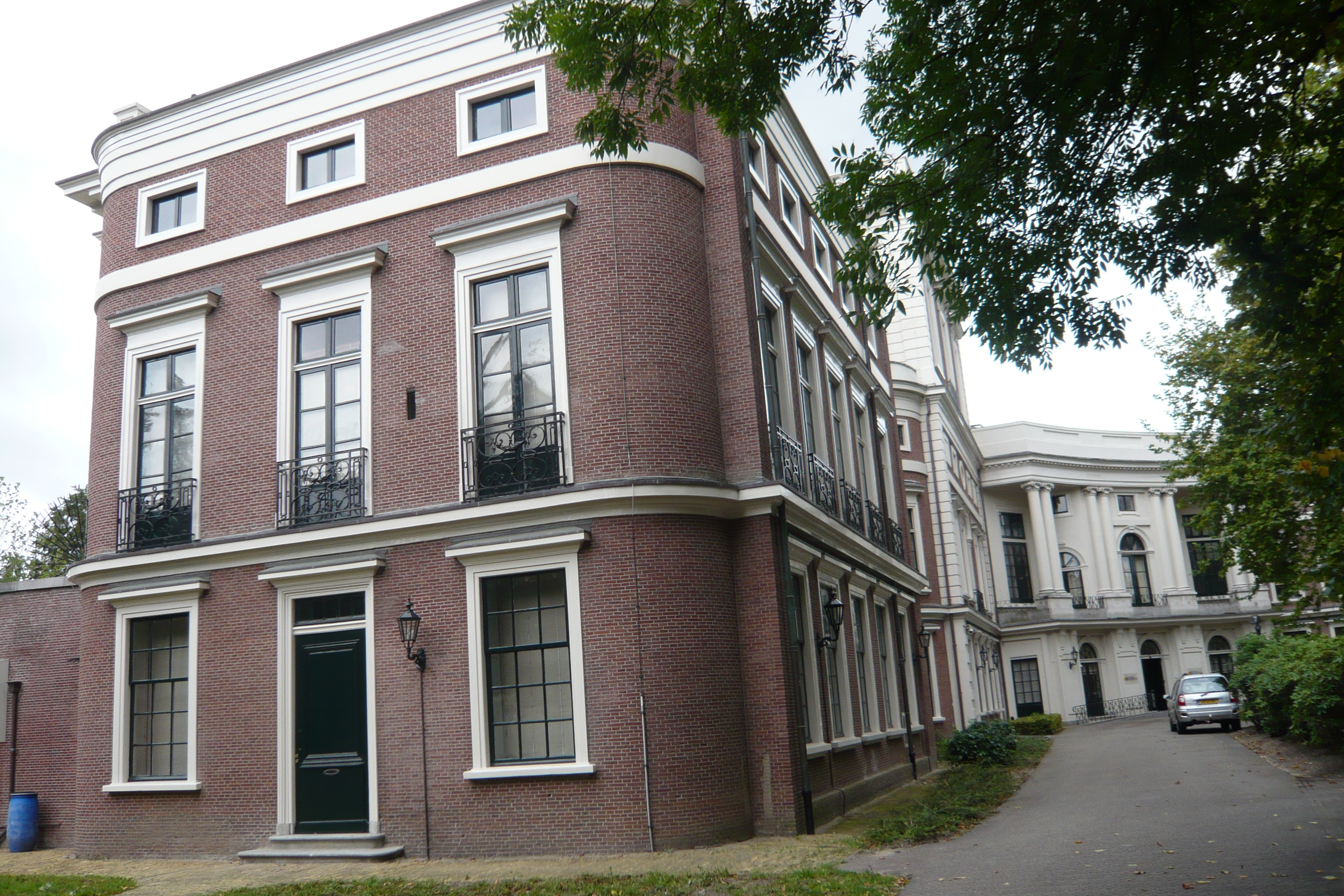 Villa Welgelegen after 2009 restoration. On the left is the eastern entrance (no longer in use), originally the entrance to the private residence of Henry Hope. He built the building as an art gallery for receiving formal visitors to his bank. The old public entrance for day-visitors is in the front (not shown). On the right is the rear public entrance for visitors who stayed overnight. Today this rear entrance is the main entrance.